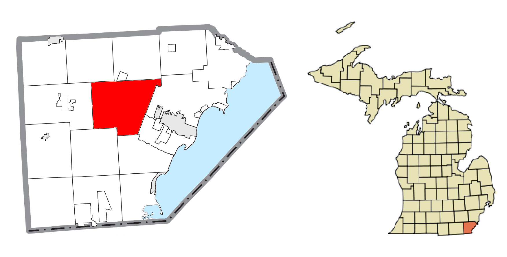 Raisinville Township, MI